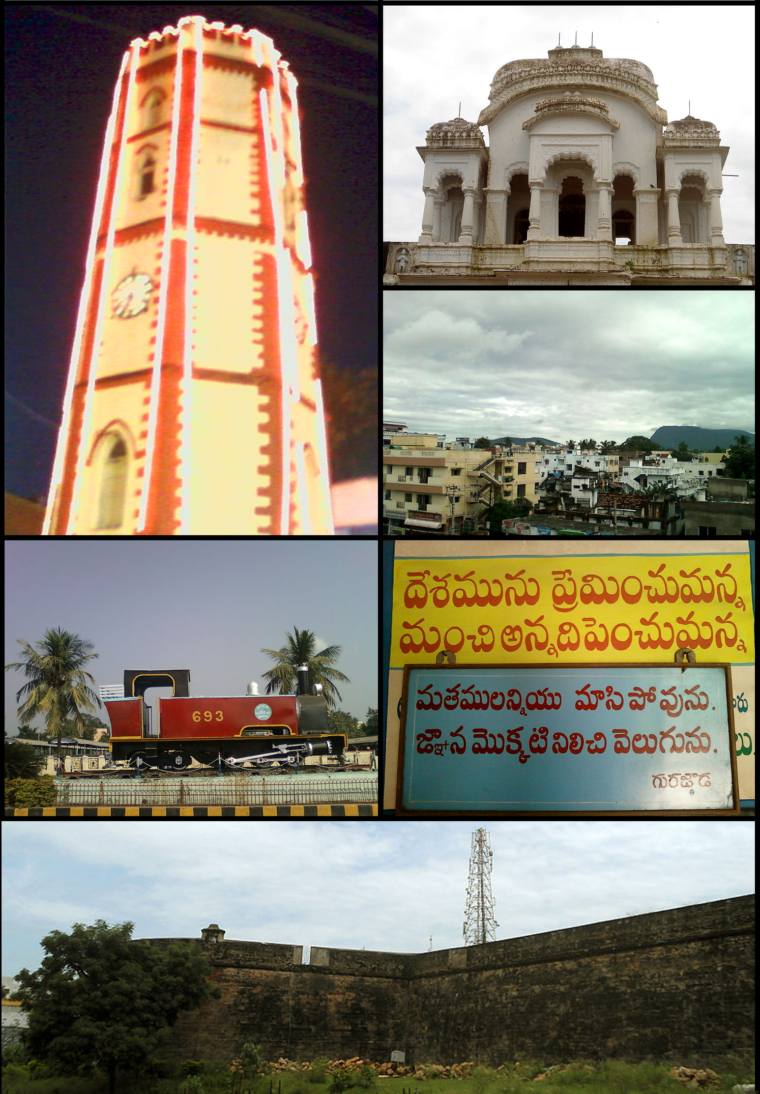 Montage of Vizianagaram with Images from wikimedia commons